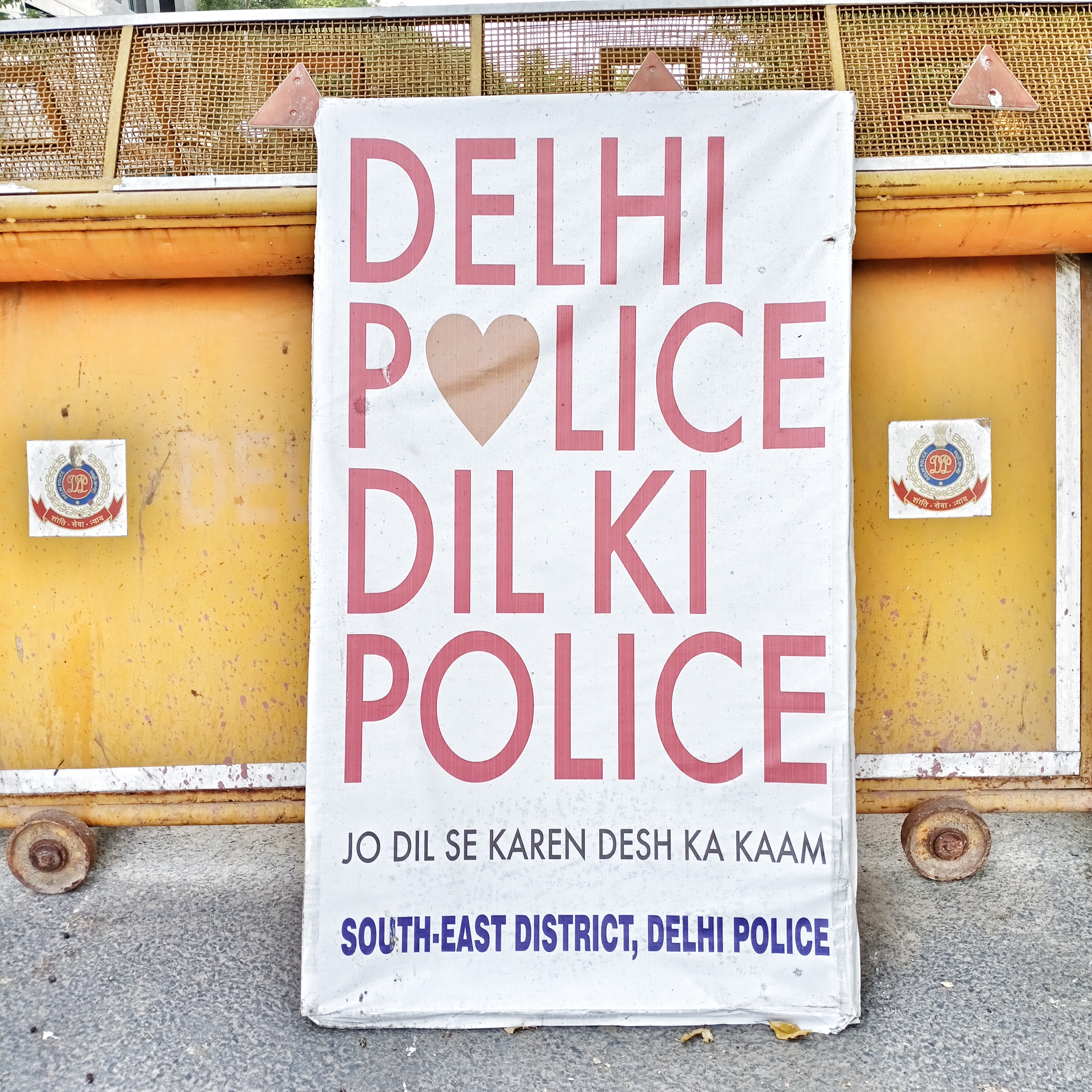 The new Delhi Police banner released amid the COVID-19 pandemic on 23 April 2020. Also used on Delhi Police social media accounts.